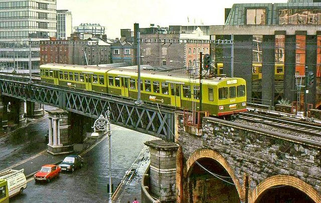 DART train crossing Lower Gardiner Street bridge on the Loop Line, Dublin. The Loop Line was opened in 1891, linking Amiens Street (now Connolly) and Westland Row (now Pearse) stations, allowing through running between the Great Northern and Dublin and South Eastern railways. It is elevated for its entire length. An IÉ 8100 Class electric multiple unit forms the 19.10 DART train from Howth to Bray.